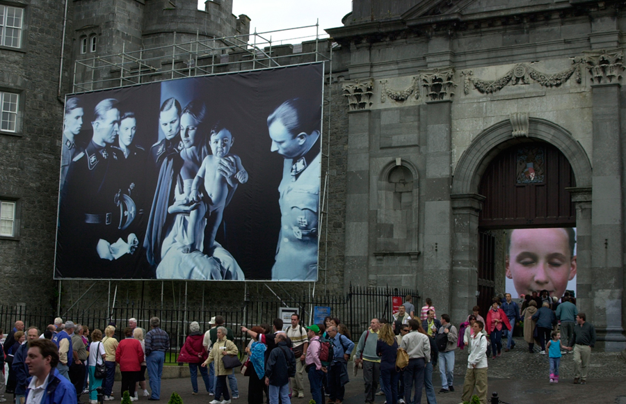 "Epiphany 1 (Adoration of the Magi)", installation at Kilkenny Castle, Kilkenny Arts Festival 2001.